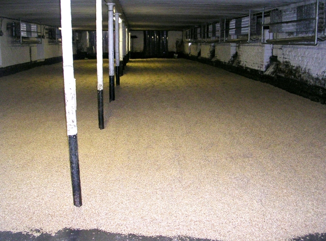 Warminster Maltings - Pound Street - Grain drying floor